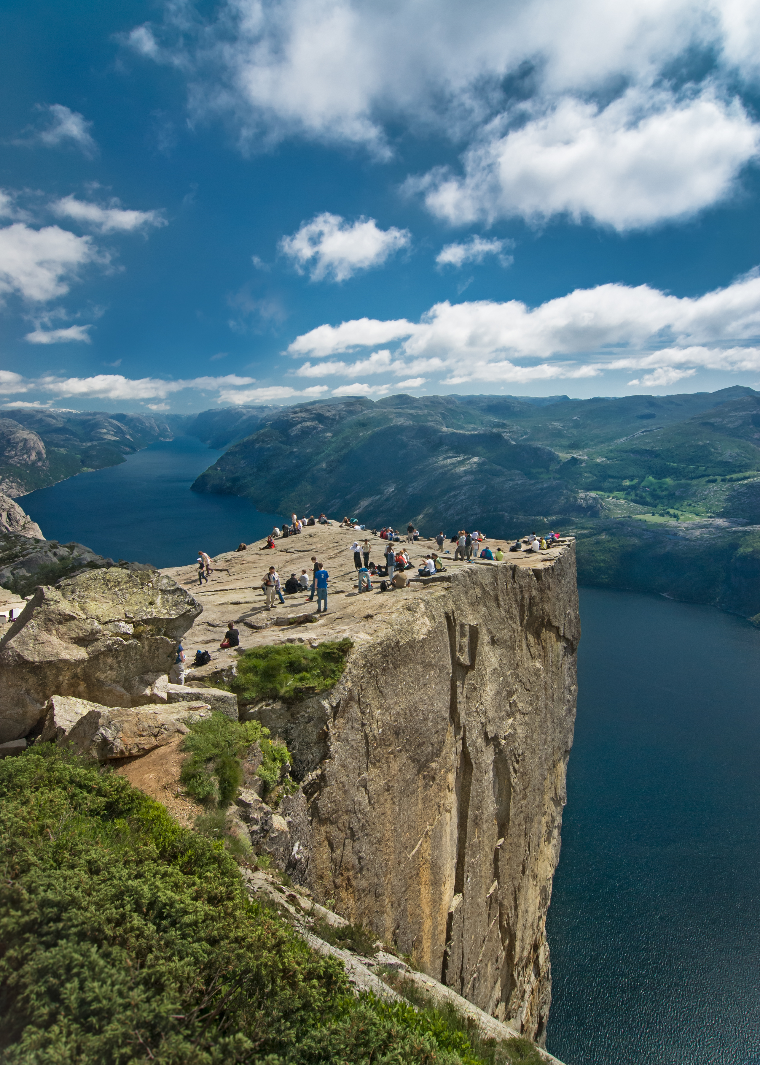 Preikestolen in Forsand, Ryfylke, Norway, with Lysefjorden fjord in the background